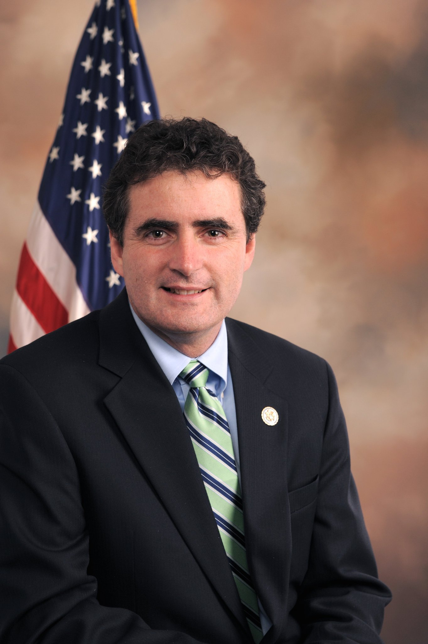 Official portrait of US Rep. Mike Fitzpatrick.